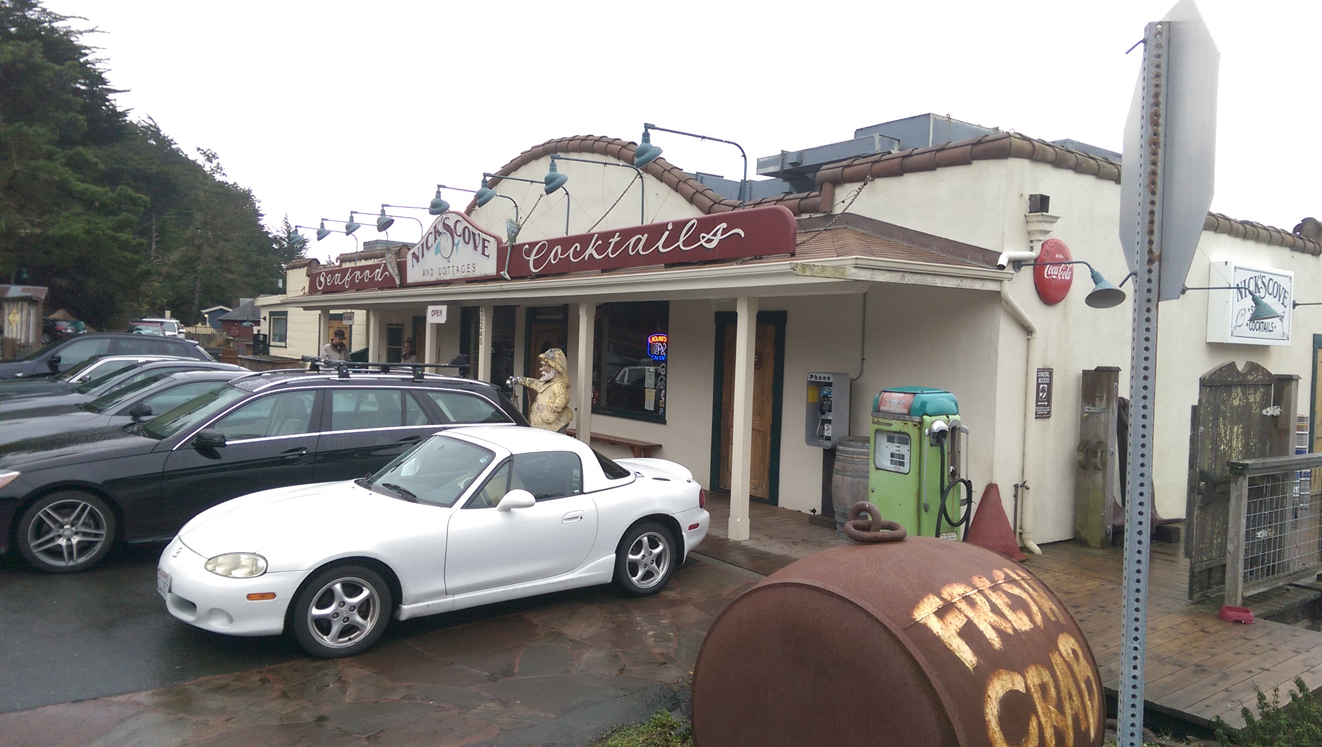 The restaurant at Nick's Cove in California. Photo by Jim Heaphy.